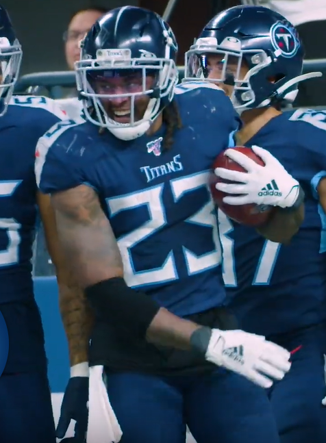 Tye Smith 2019. Image from video Blocked FG Return Sparks Week 13 Victory | Touchdown Tuesday, ~ 00:24.